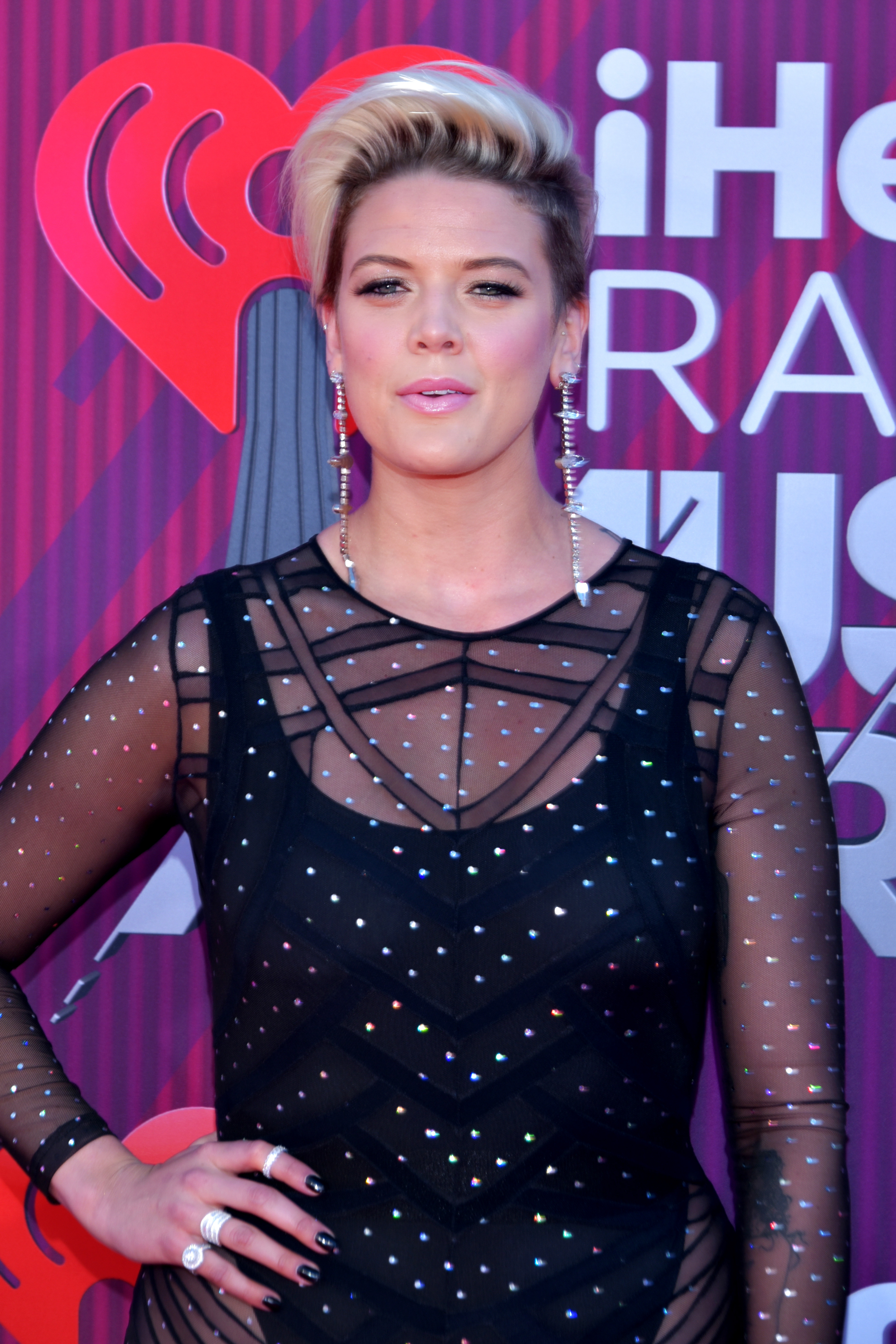 Betty Who at the 2019 iHeartRadio Music Awards in Los Angeles California on March 14, 2019 - Photo by Glenn Francis of